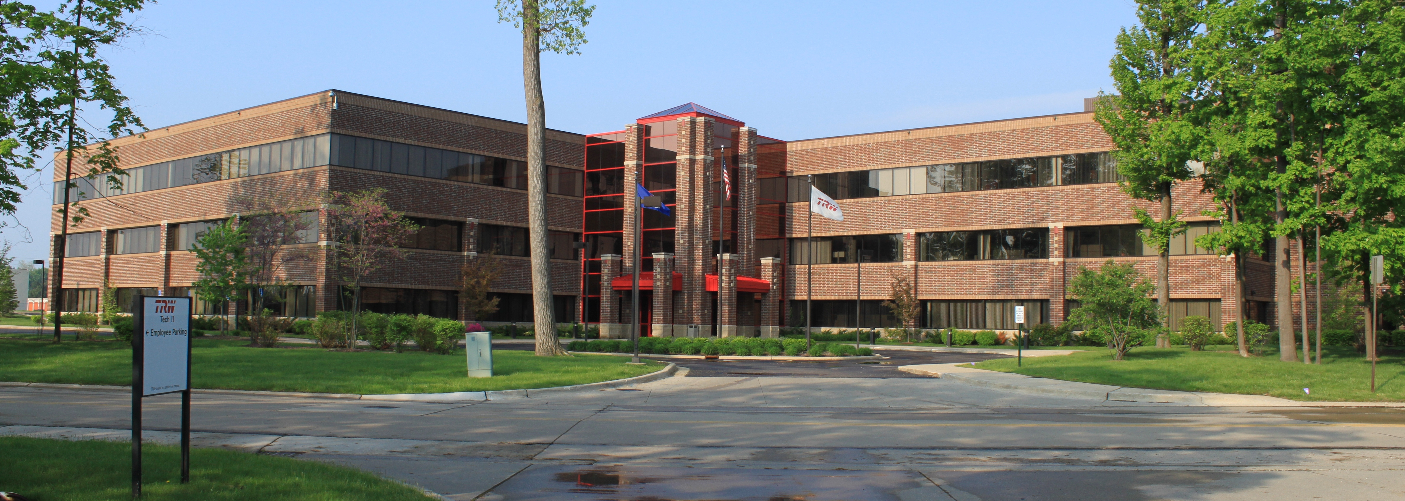 TRW Automotive headquarters building, 12001 Tech Center Drive, Livonia, Michigan